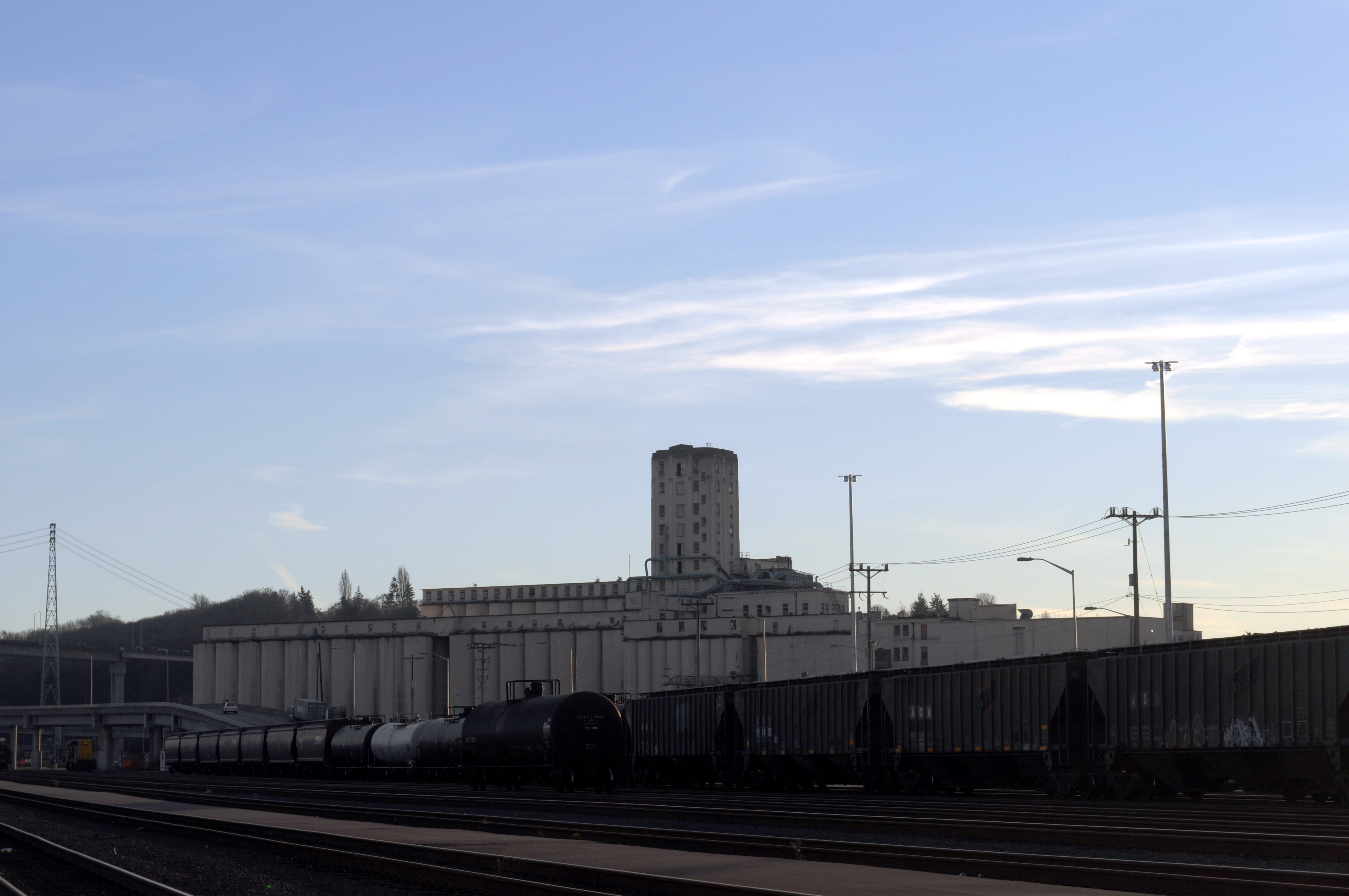 Flour mill and grain terminal, originally Fisher Flour Mill, later Pendleton, on the west shore of Harbor Island, Seattle, Washington, USA.